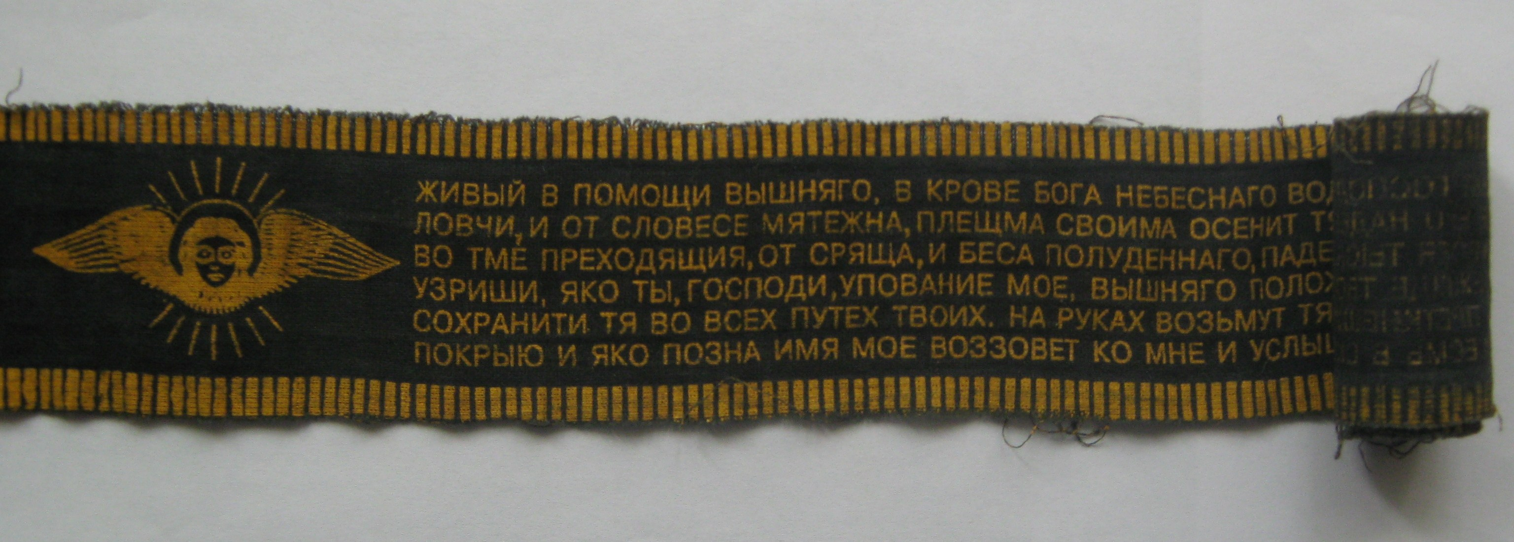 Tape with words from Psalm 91 (Septuaginta/Vulgata: Psalm 90)